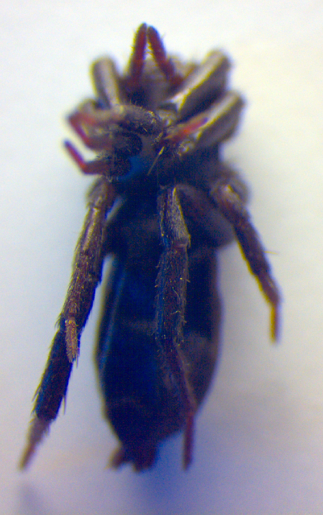 Drassyllus praeficus